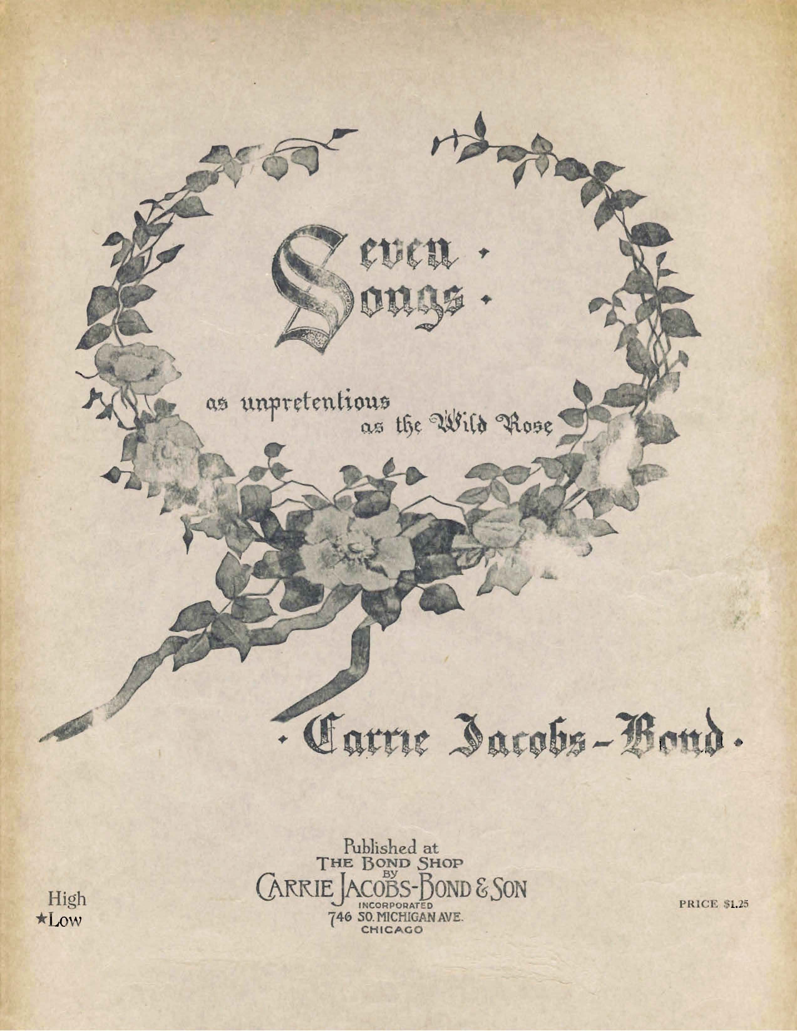 Cover of the original 1901 printing of Carrie Jacobs-Bond's Seven Songs as Unpretentious as the Wild Rose scanned 2010 January 22